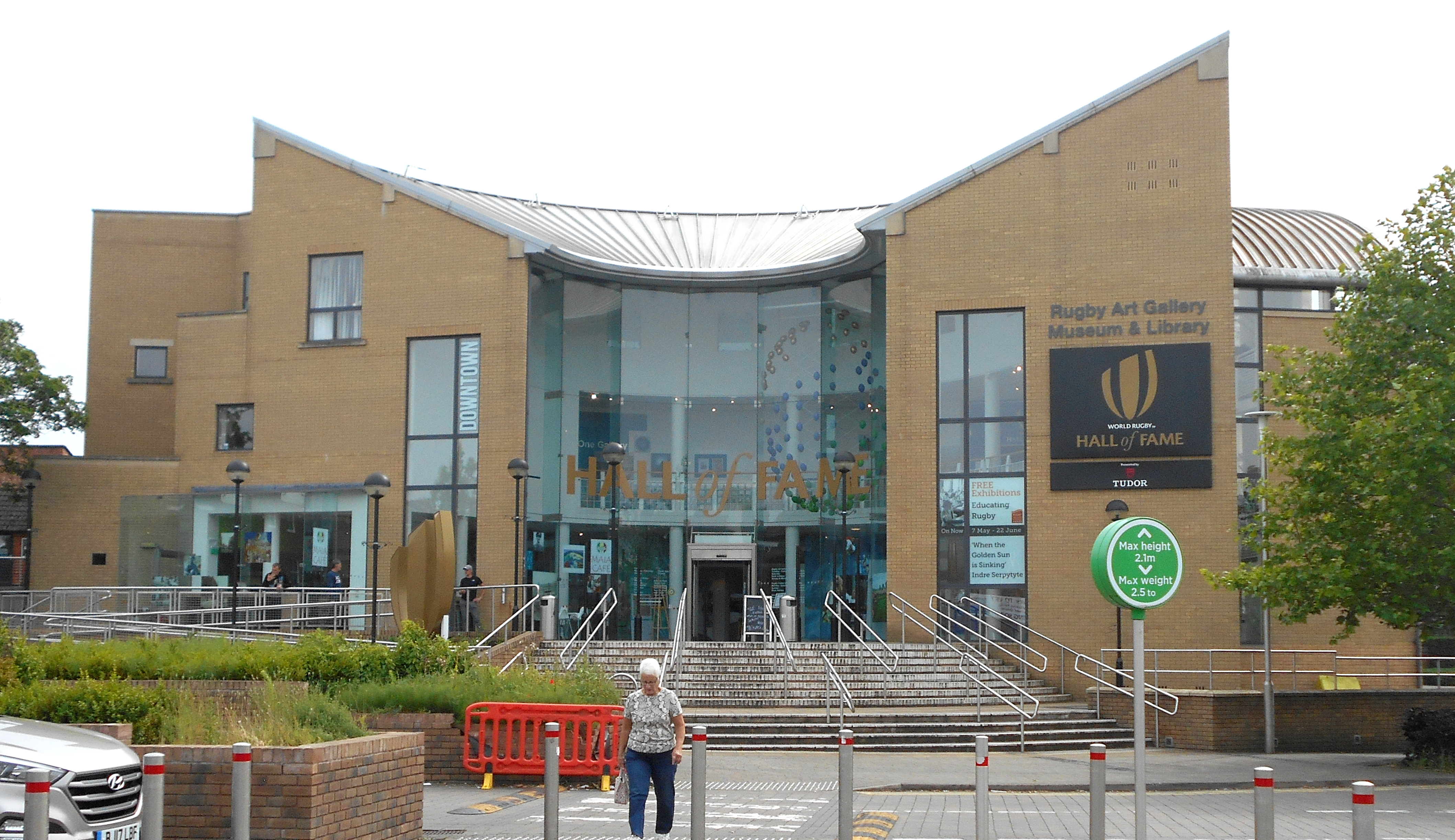 Rugby Art Gallery and Museum